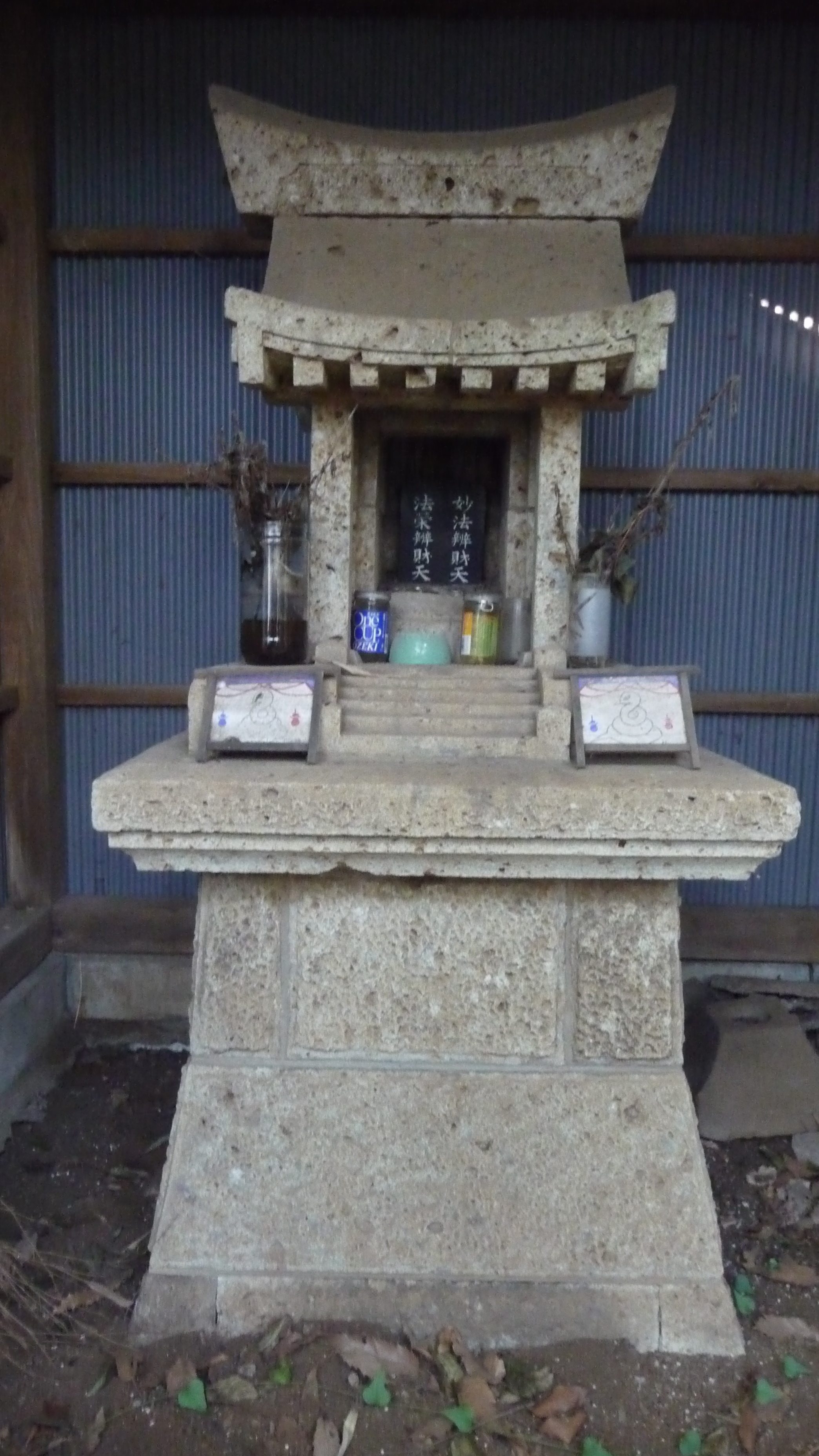 Small shrine (Hokora,祠) worship for Taira no Masakado, who built the castle as war tactics (出城 lit. an expedition castle), in Ohno machi Ichikawa, Chiba. Shrine is in the are of Middle school No.5 so that step in to area and photo taken under approval on 18 Oct. 2009